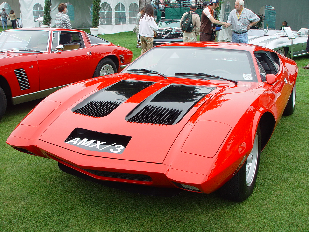 AMC AMX/3. Photograph taken at 2004 Concorso Italiano.